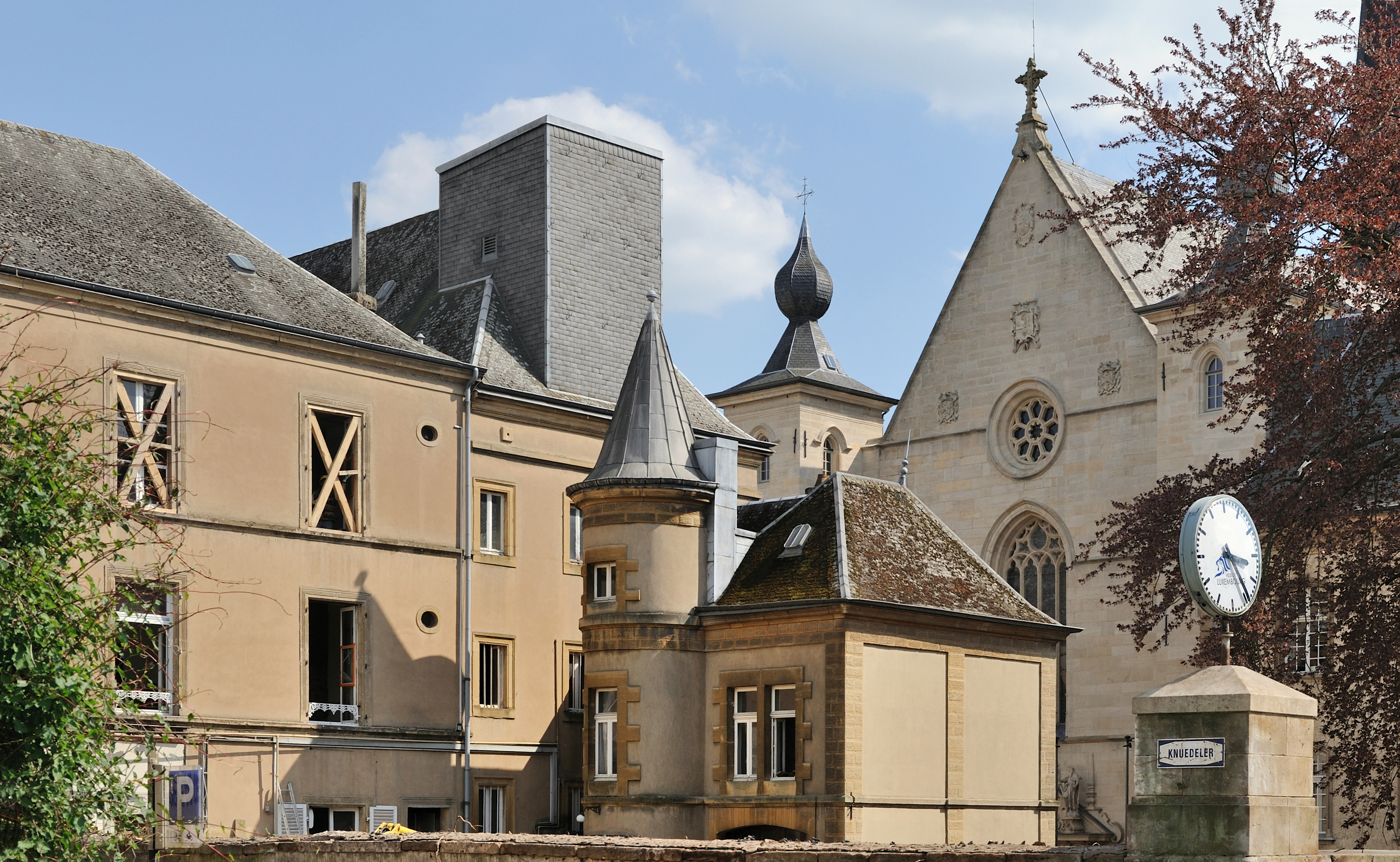 Luxembourg City: from square Guillaume II towards Notre-Dame Cathedral